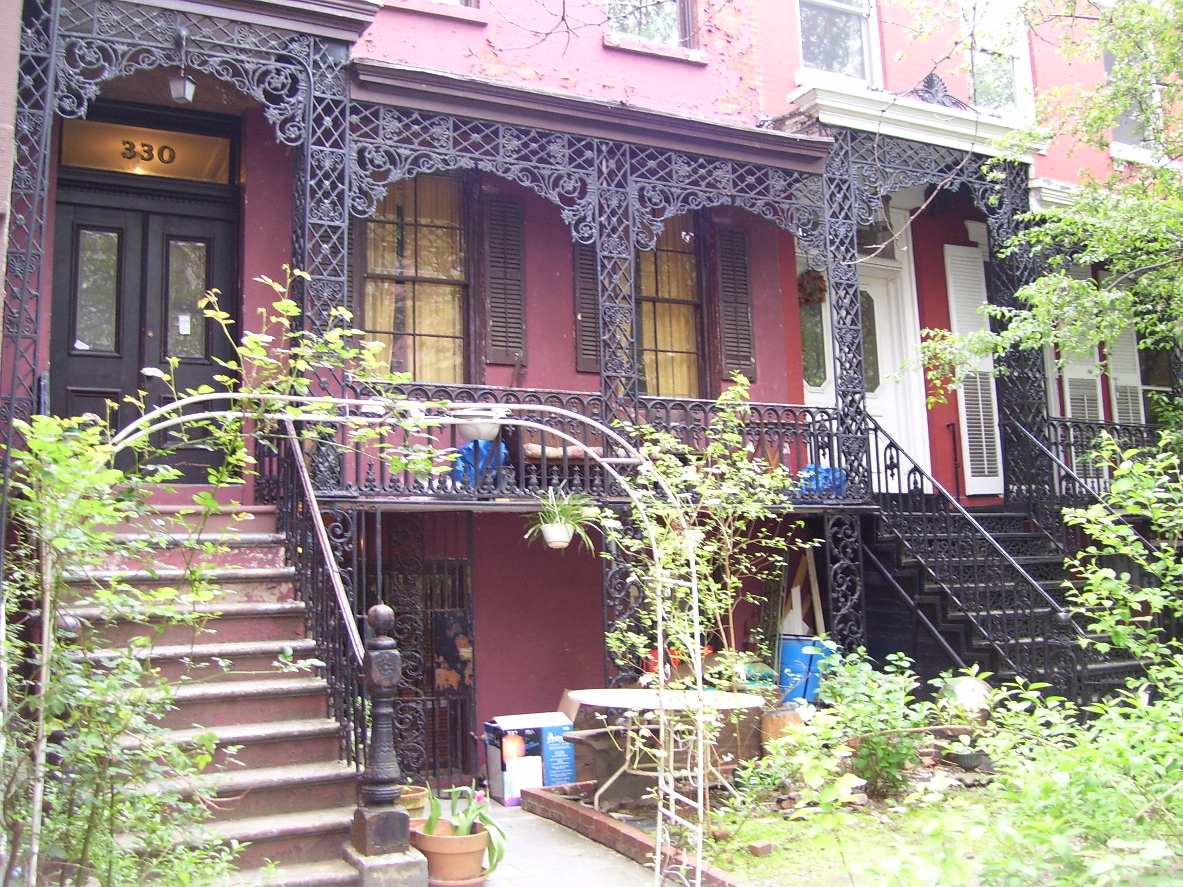 These Italianate house at 326, 328 and 330 East 18th Street in Manhattan, New York City, were built in 1853 at the instigation of Cornelia Stuyvesant Ten Broeck. They have deep, landscaped front yards and cast-iron verandas reminiscent of New Orleans.